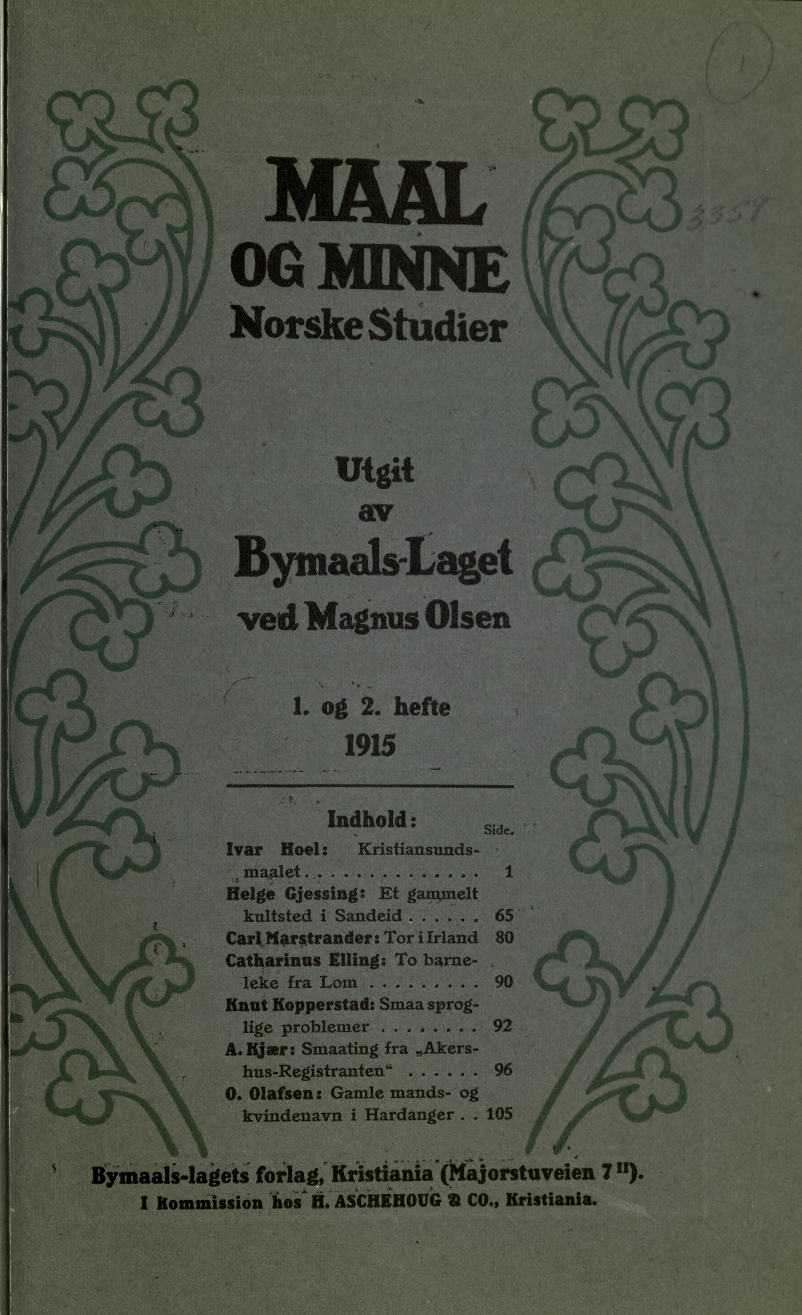 The Norwegian periodical Maal og Minne, 1915.